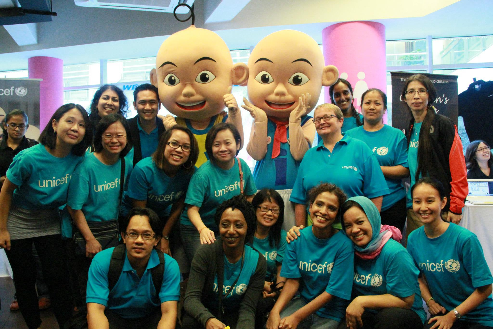 UNICEF Malaysia National Ambassador Upin & Ipin with the Country Office Team during the Universal Children's Day Children4Change Launch in 2012.